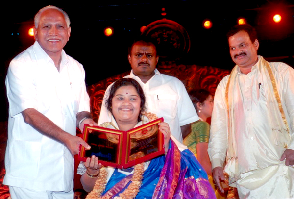 Sangeeta Katti Receiving Karnataka Rajotsava Award - 2006 From CM & Deputy CM